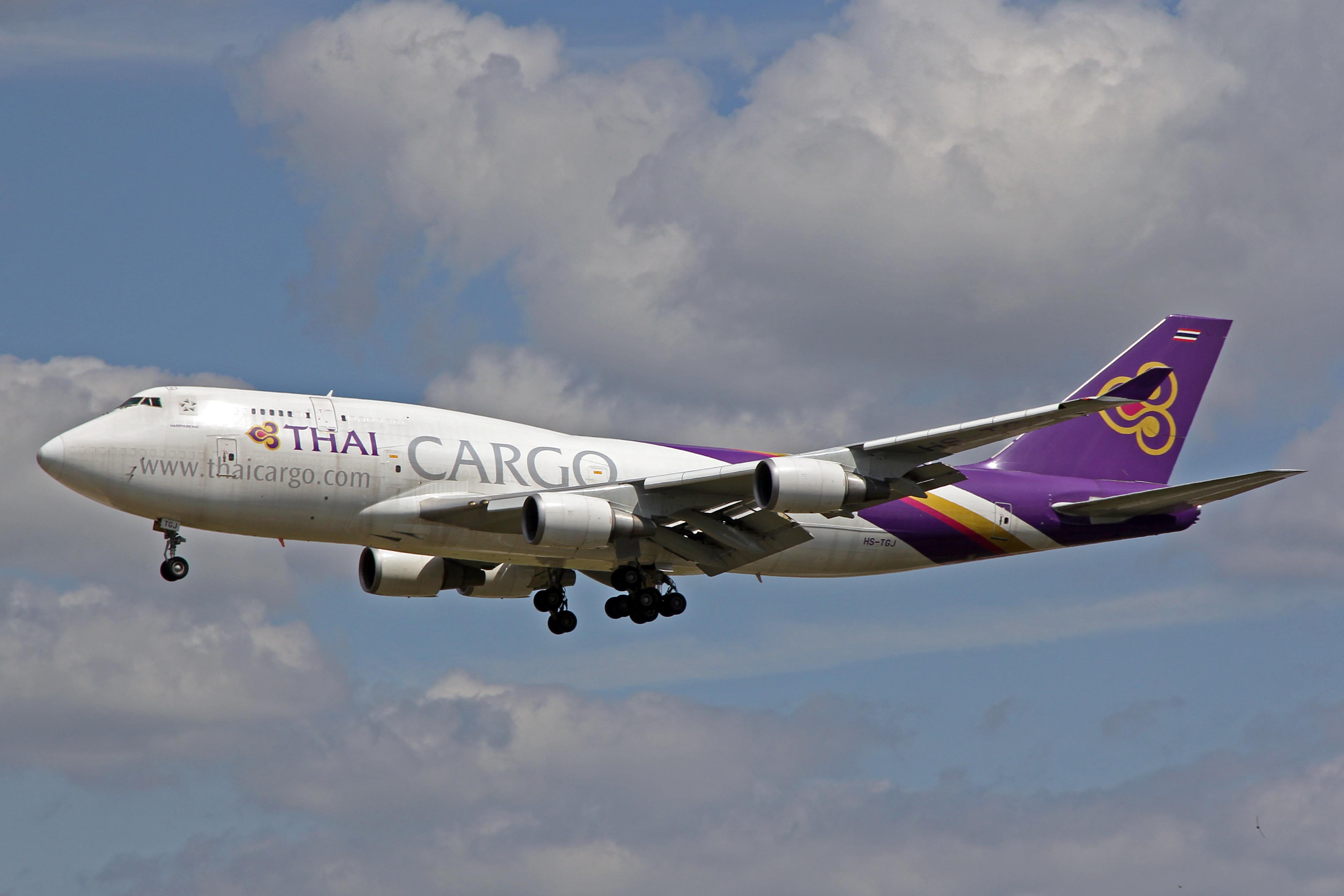 "Hariphunchai" as a freighter